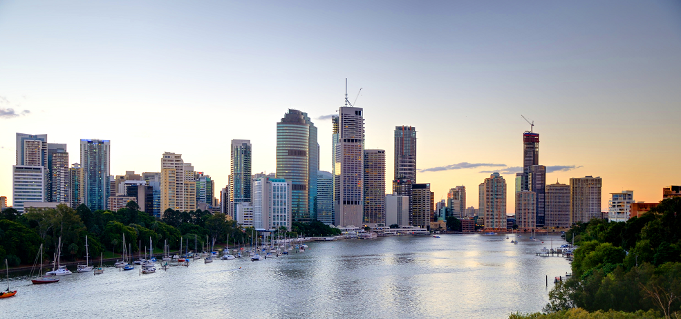 Brisbane from Kangaroo Point(edited) make by EzykronHD. If used outside of Wikipedia, please include his full name located in a prominent position near the image. This can be obtained by Emailing me by clicking here. Thanks :-)